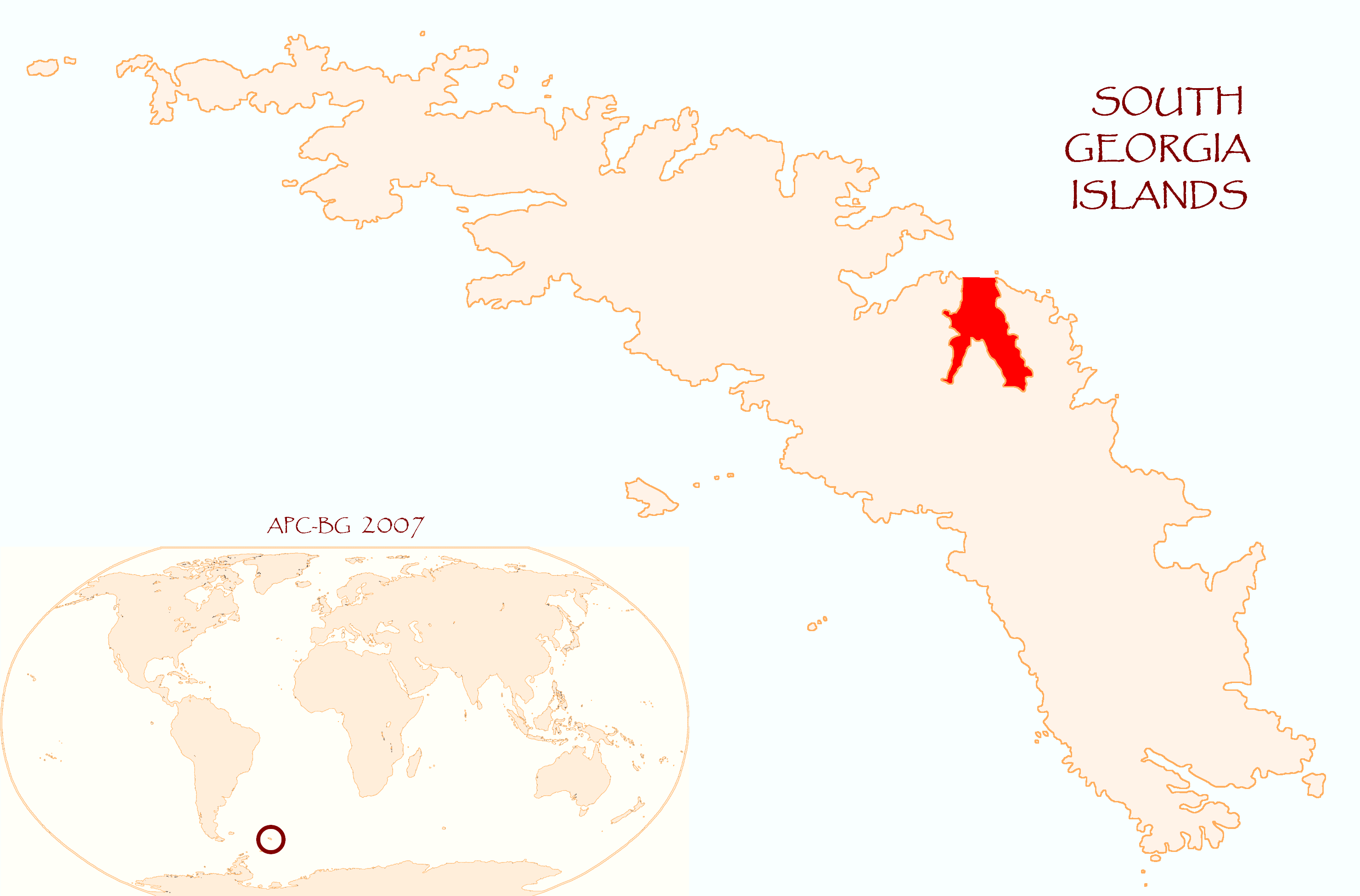 Location map for Cumberland East Bay, South Georgia published by the author Apcbg.